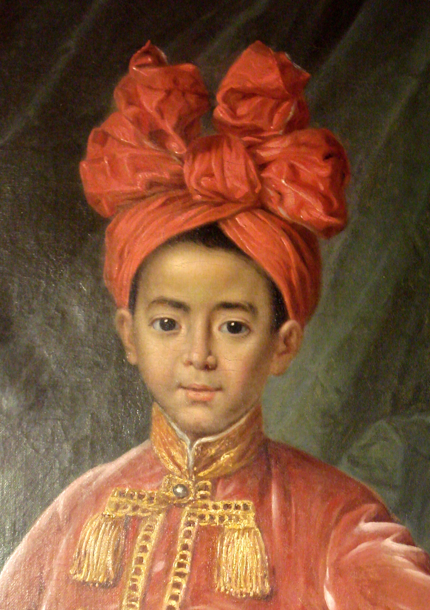 Prince_Canh_portrait at the MEP